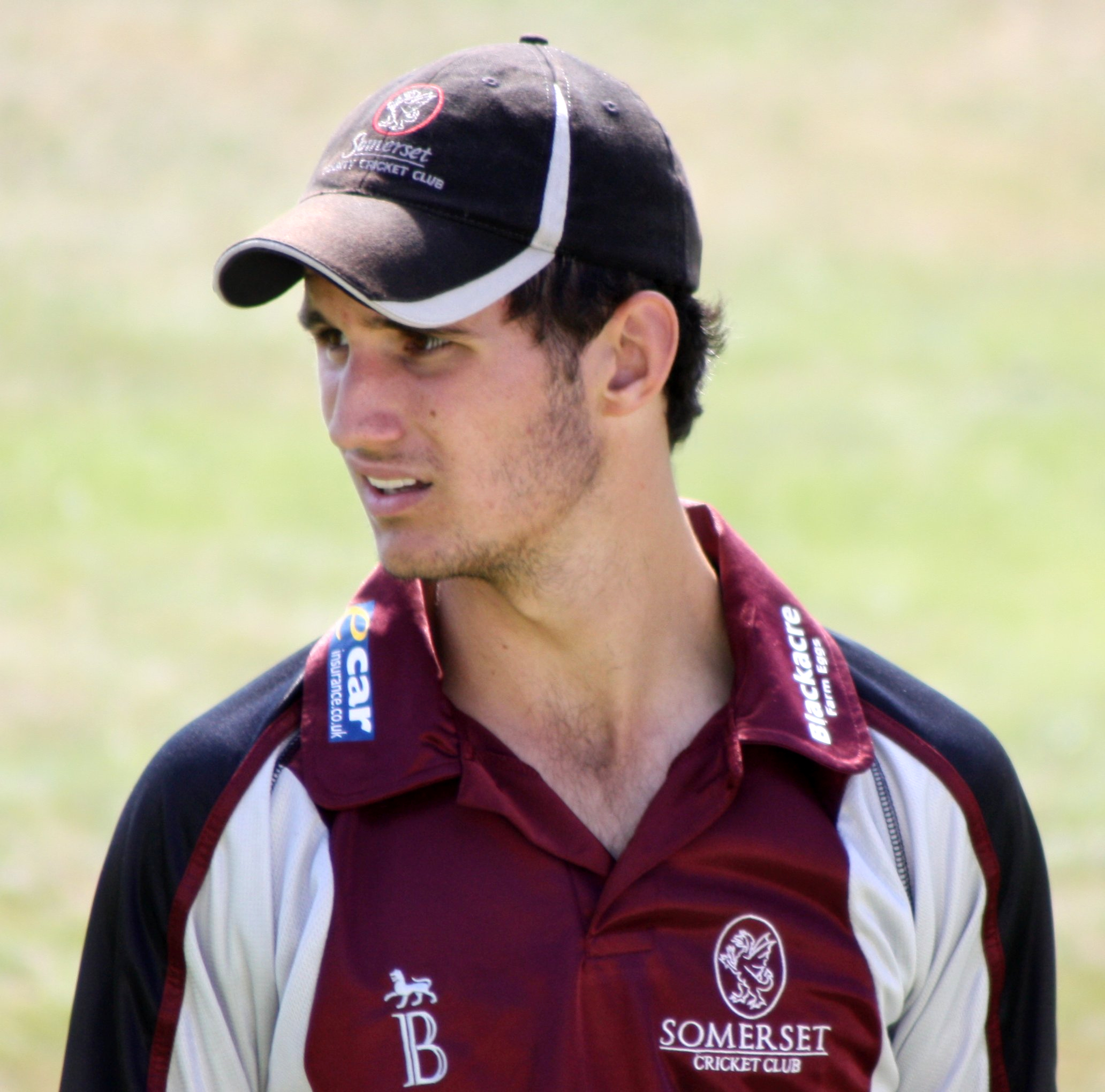 Lewis Gregory in the field for Somerset during a match against the touring Pakistan cricket team at the County Ground, Taunton.